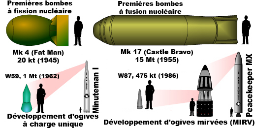 Graphic showing relative sizes of various types of nuclear weapons. Clockwise from upper left: a Fat Man (MK-IV) bomb similar to the type dropped on Nagasaki, Japan; a MK-17 hydrogen bomb of the sort detonated at the Castle Bravo test; a W-87 warhead inside its re-entry vehicle (see MIRV, LGM-118A Peacekeeper); and a W-59 warhead used on the early Minuteman missiles.